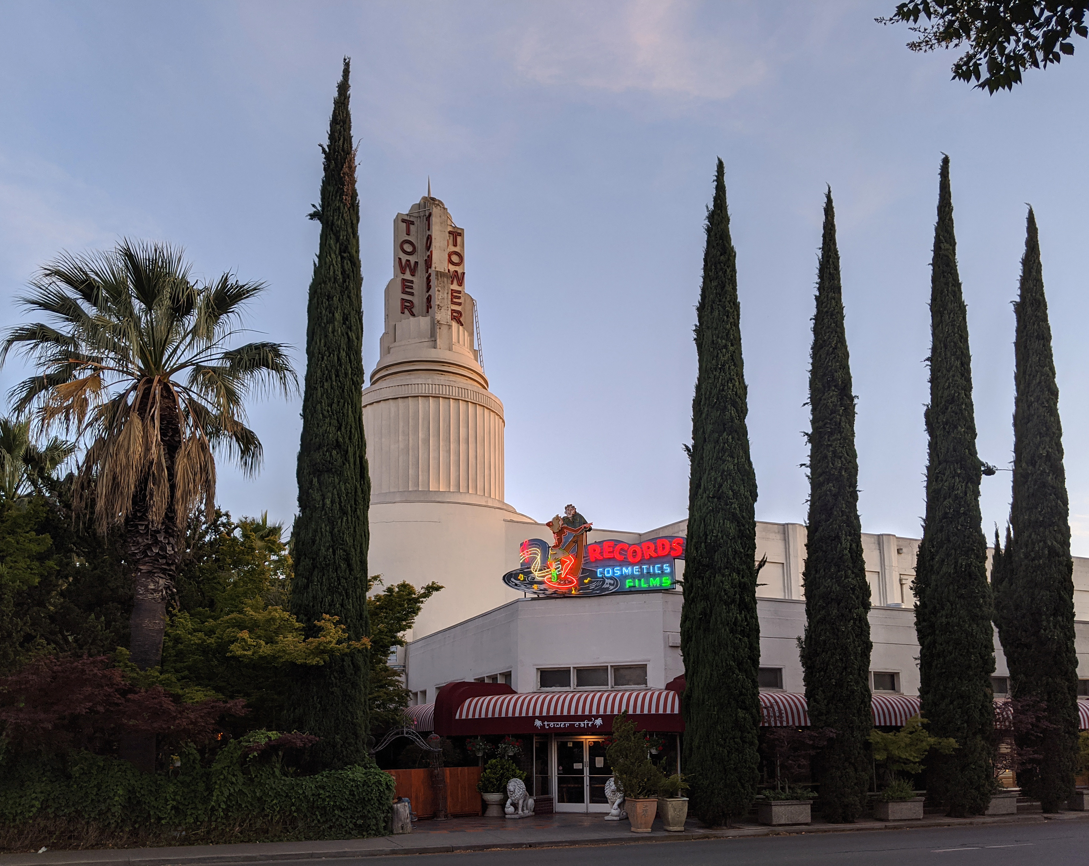 The Tower Theatre in Sacramento, California, where the founder of Tower Records first sold records from his father's Tower Drugs.